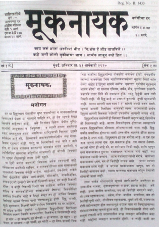 Cover page of Dr. Babasaheb Ambedkar's 'Mooknayak'